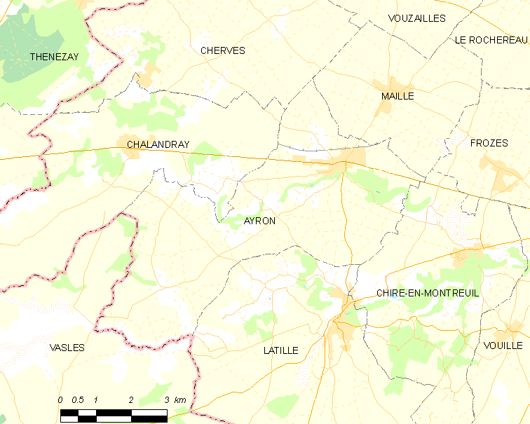 Map of French municipality Ayron